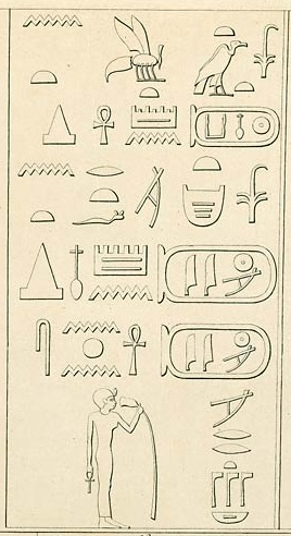 Depiction of Ankhesenmerire II at Wadi Maghara (Sinai)